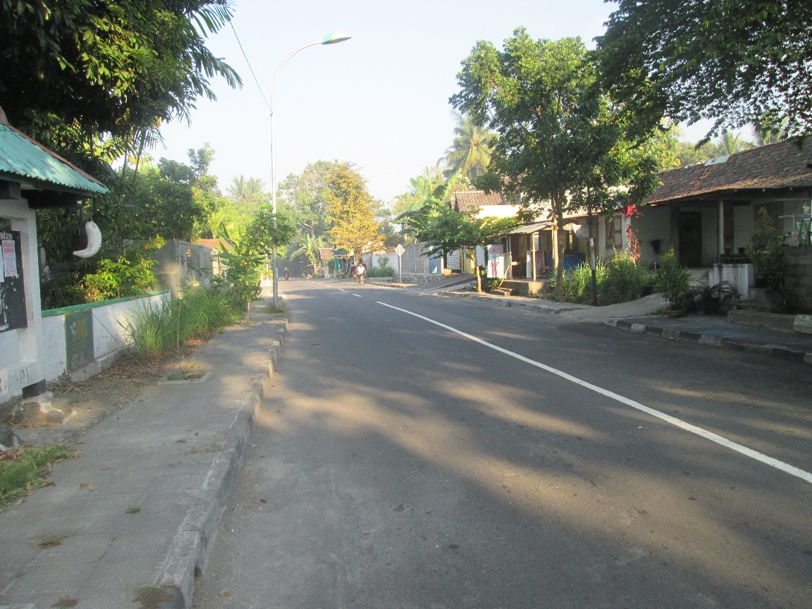 The railway line that now used as PJKA Road in Sleman City.